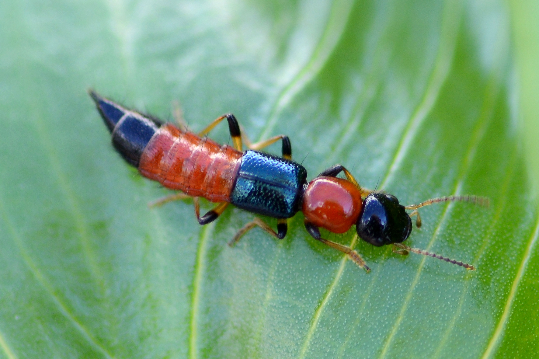 Paederus littoralis, taken in Porto Covo, Portugal